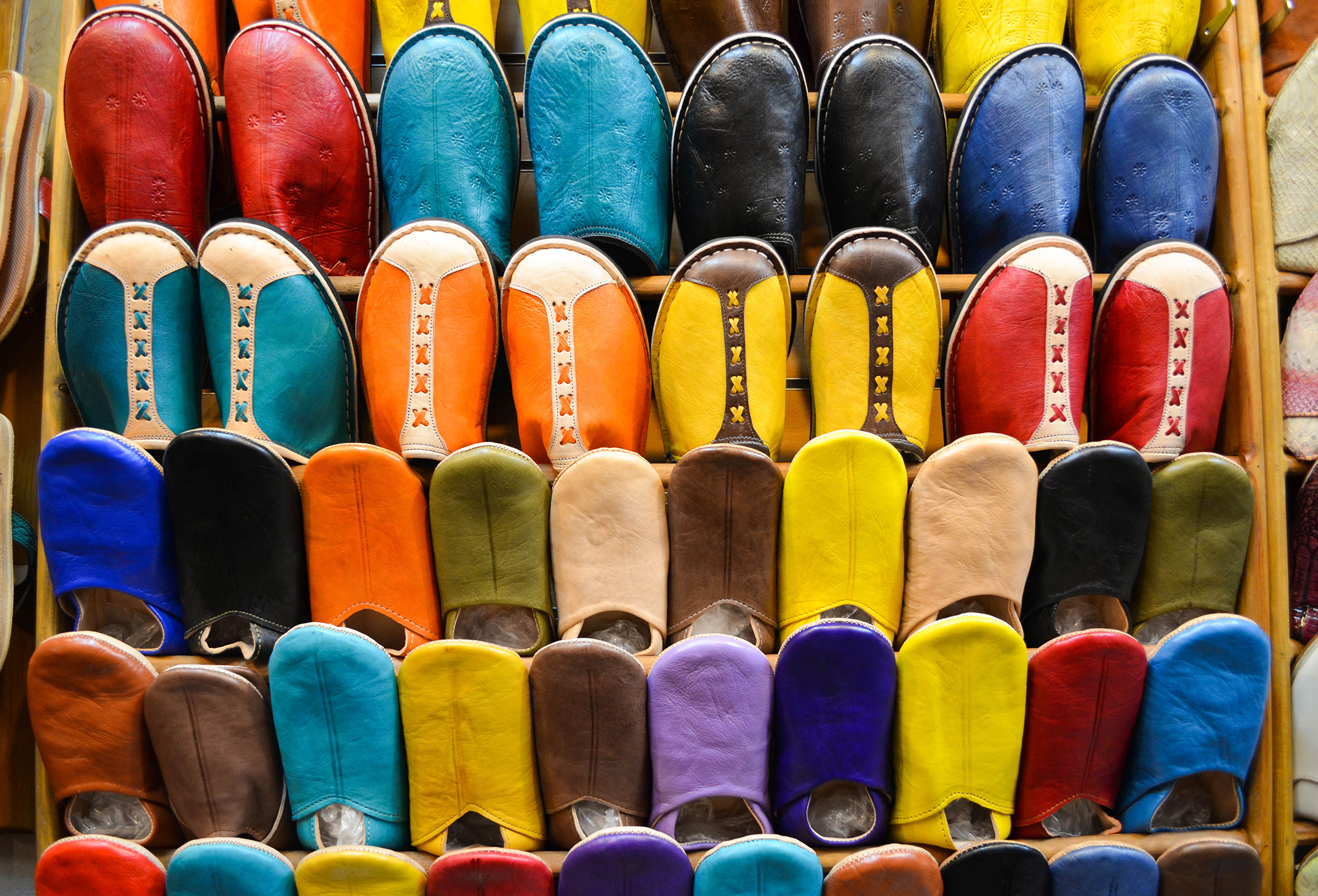 Colourful bejewelled slippers, Marrakesh, Morocco